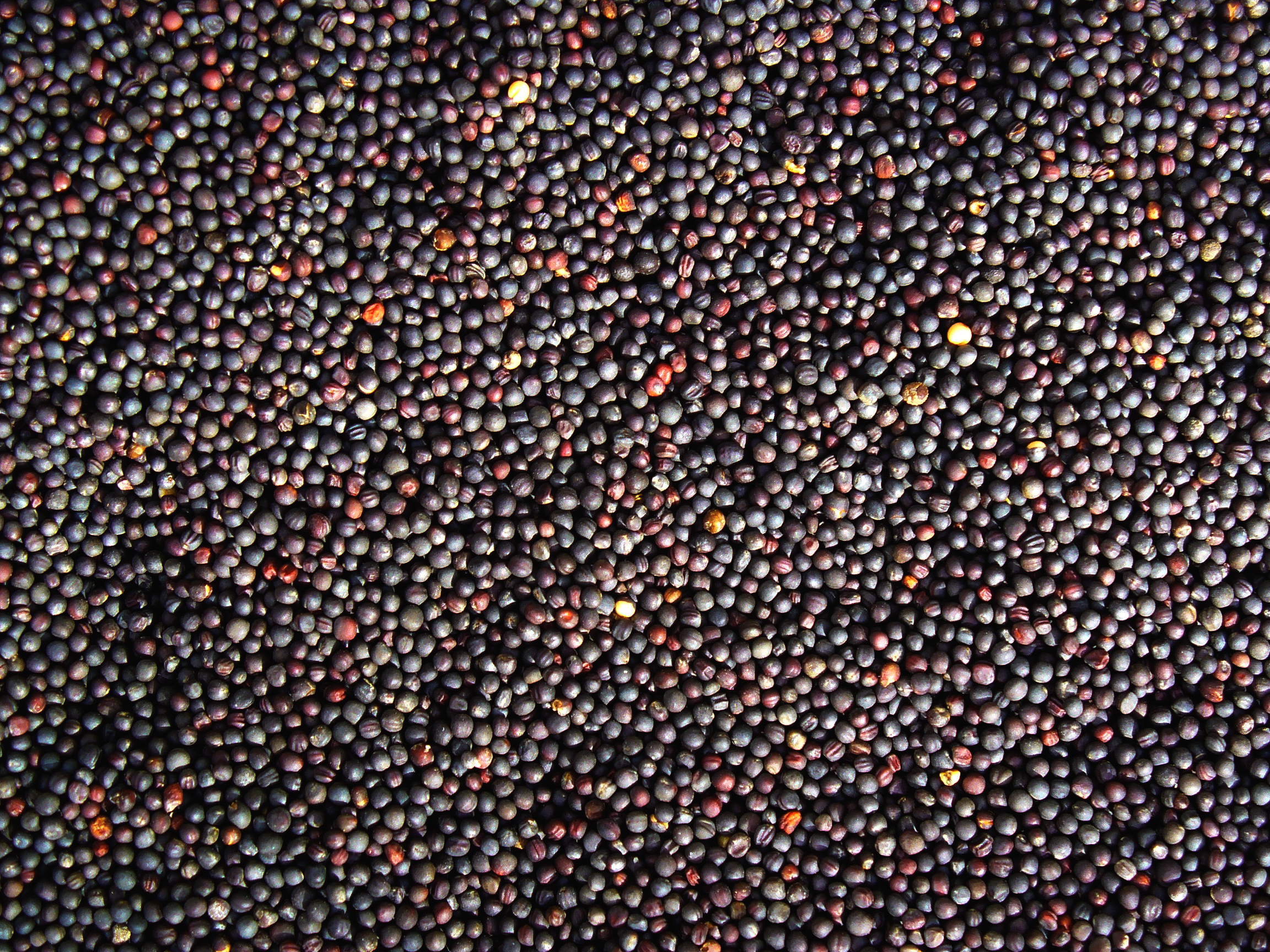 Brassica napus, Brassicaceae, Rapeseed, oilseed rape, seeds; Karlsruhe, Germany. The fresh plants are used in homeopathy as remedy: Brassica napus (Brass.)